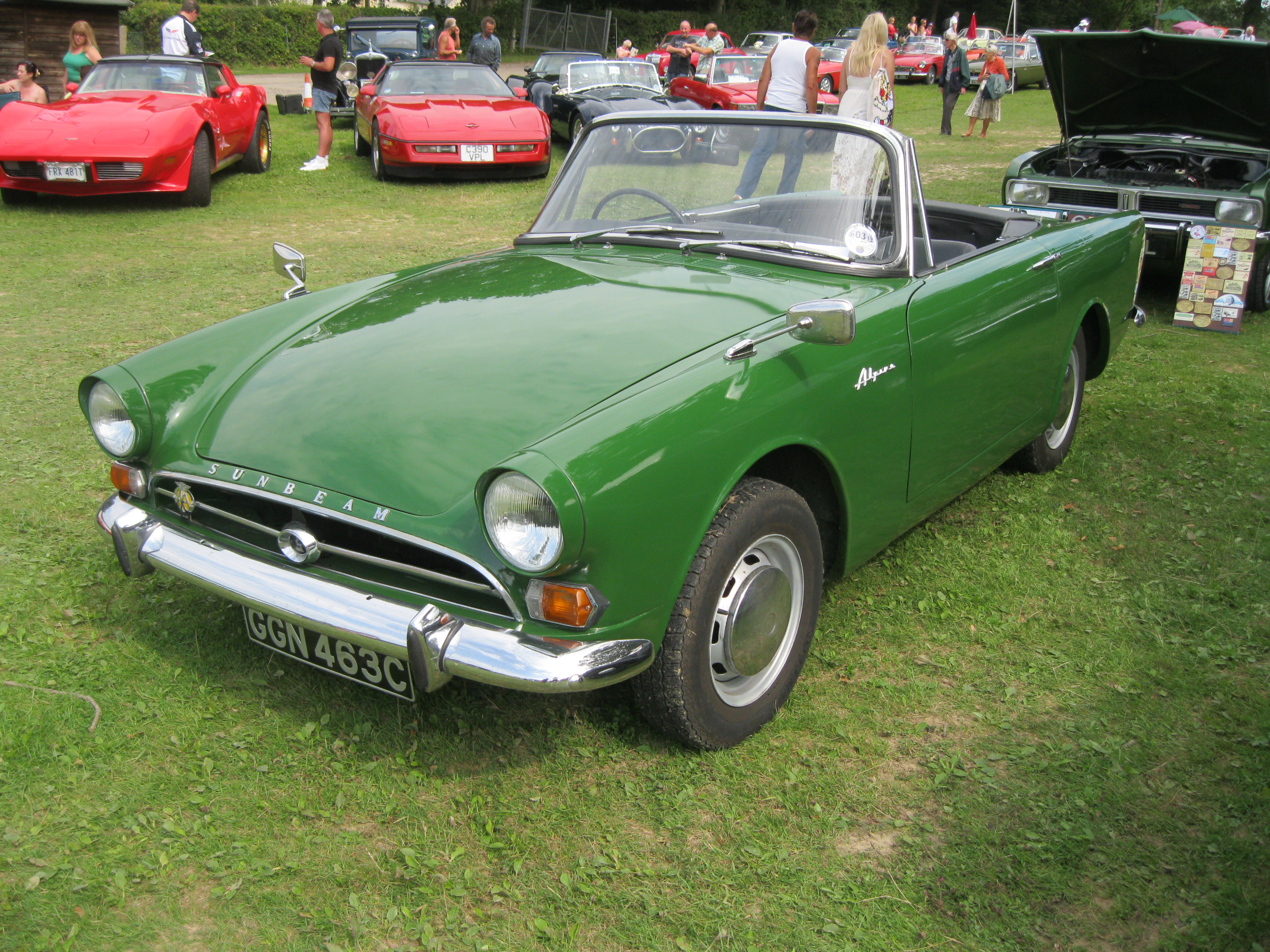 1592cc Mk.IV version of Rootes' open 2-seater - spotted at the Bluebell Railway's Transport Weekend at Horsted Keynes Station in August 2012.